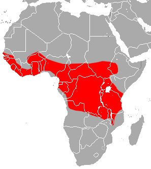 Noack's Roundleaf Bat (Hipposideros ruber) range